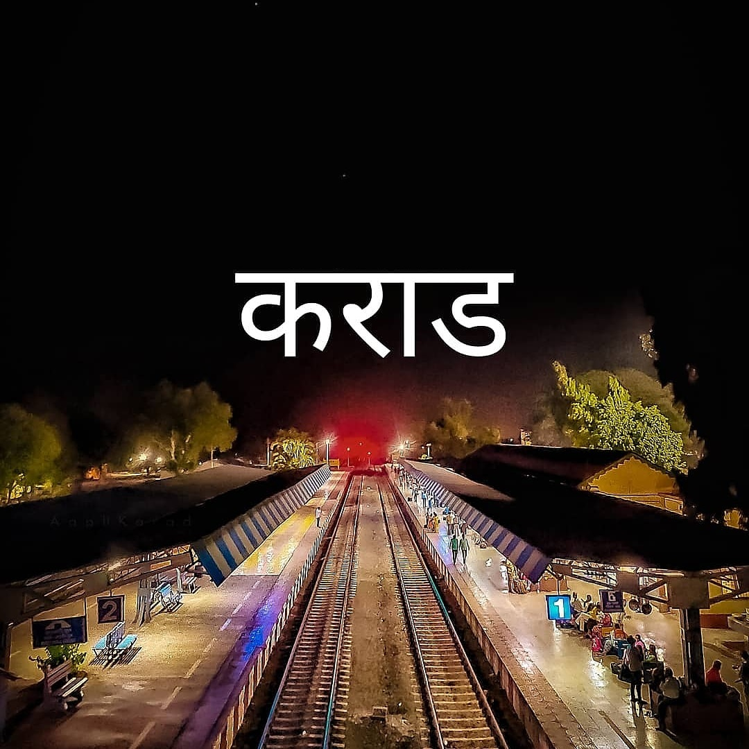 IMG_Karad2